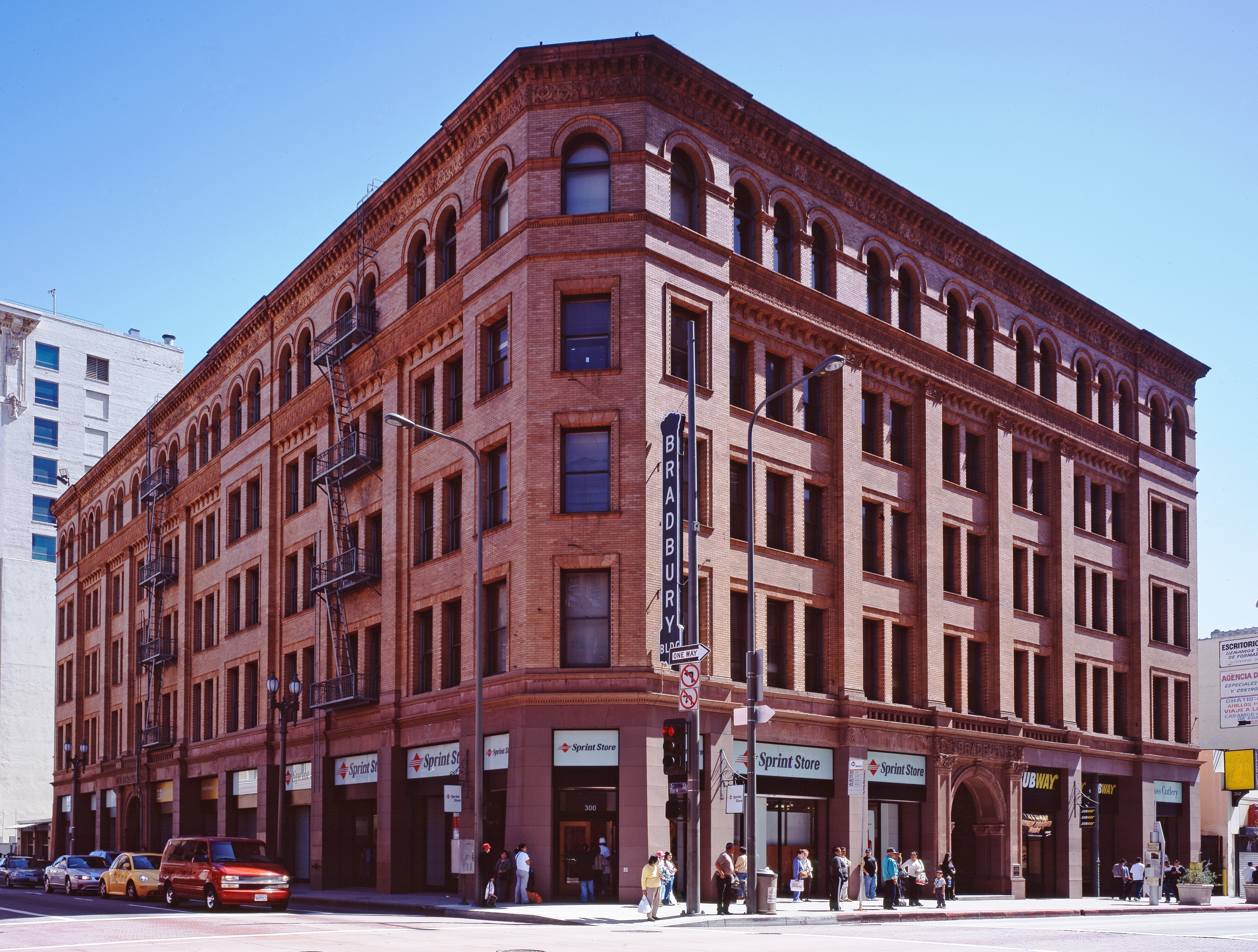 Photographs of buildings in Los Angeles, California and the surrounding area